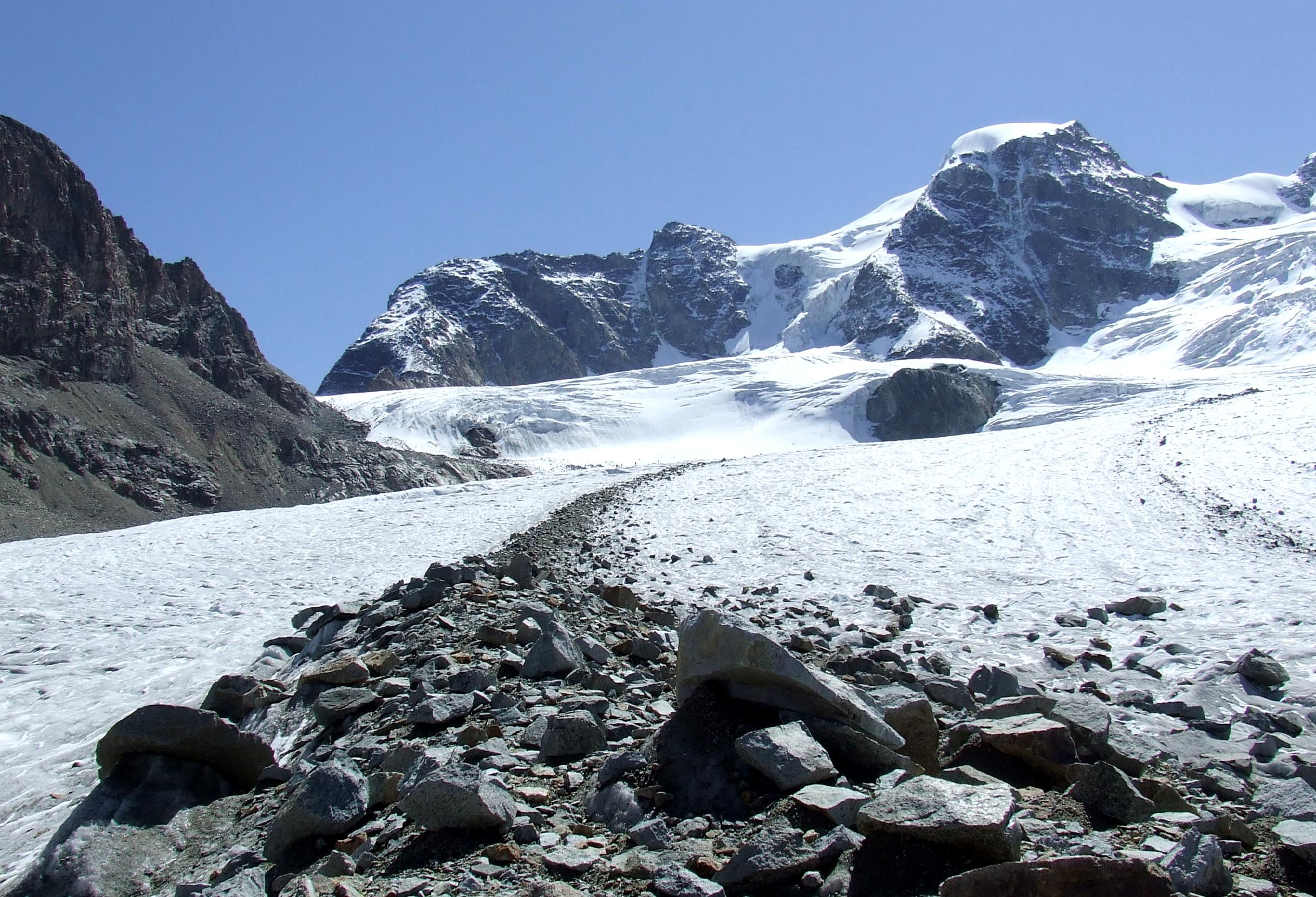 Piz Cambrena (right) and Piz d'Arlas (left) from Pers glacier, Graubünden